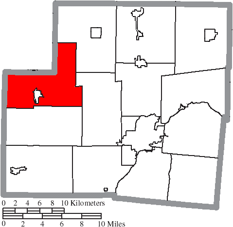 Map of the municipal and township boundaries of Shelby County, Ohio, United States, as of the 2000 census, with the location of McLean Township highlighted. Township borders are shown only in unincorporated areas in order to differentiate incorporated and unincorporated areas more clearly.